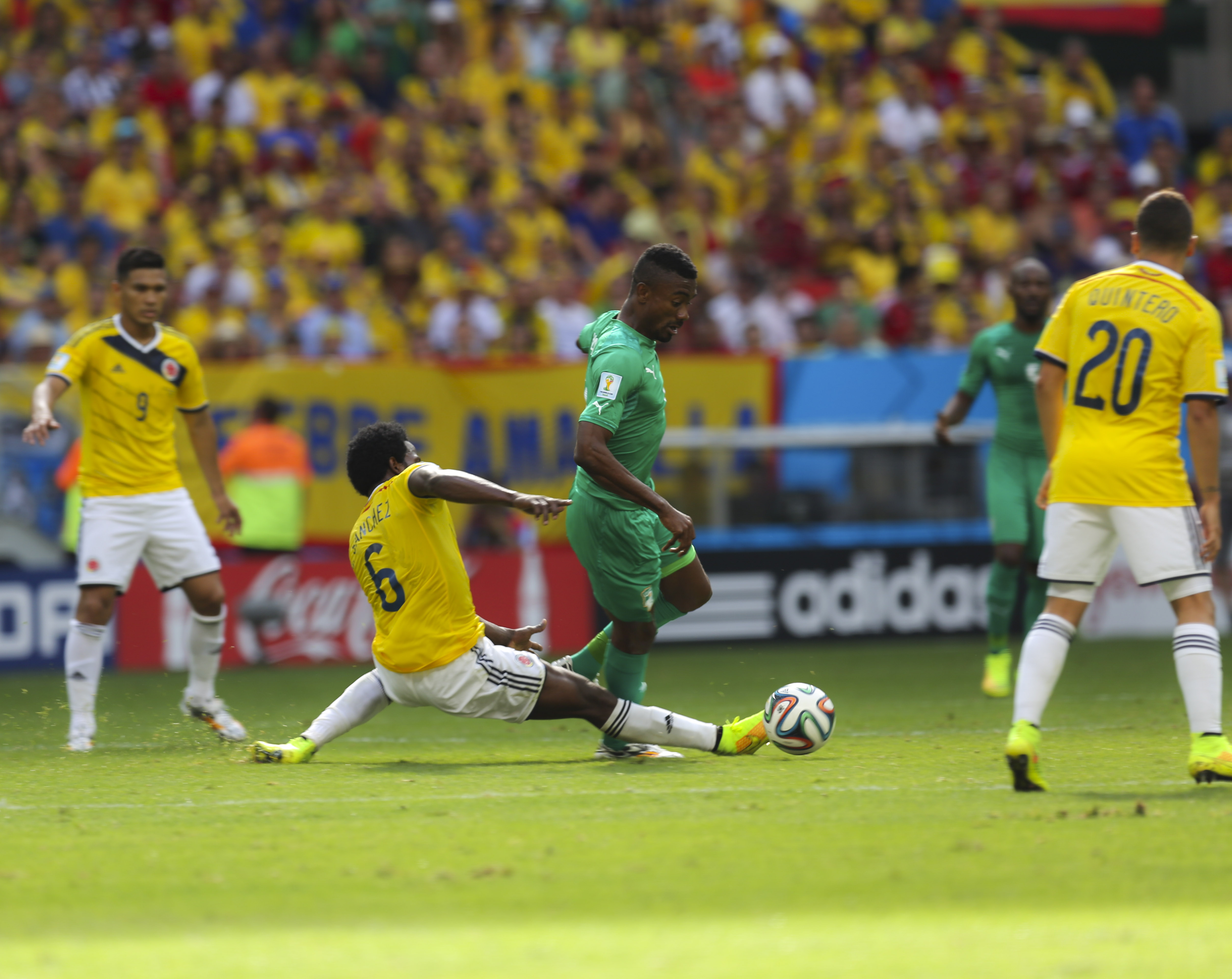 Colombia and Ivory Coast match at the FIFA World Cup 2014-06-19